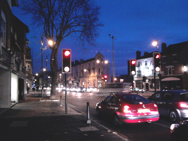 A picture of Chapel Ash, Wolverhampton, taken during the early evening rush hour in November. Visible is the Alexandra pub, & Tattoo Palace.